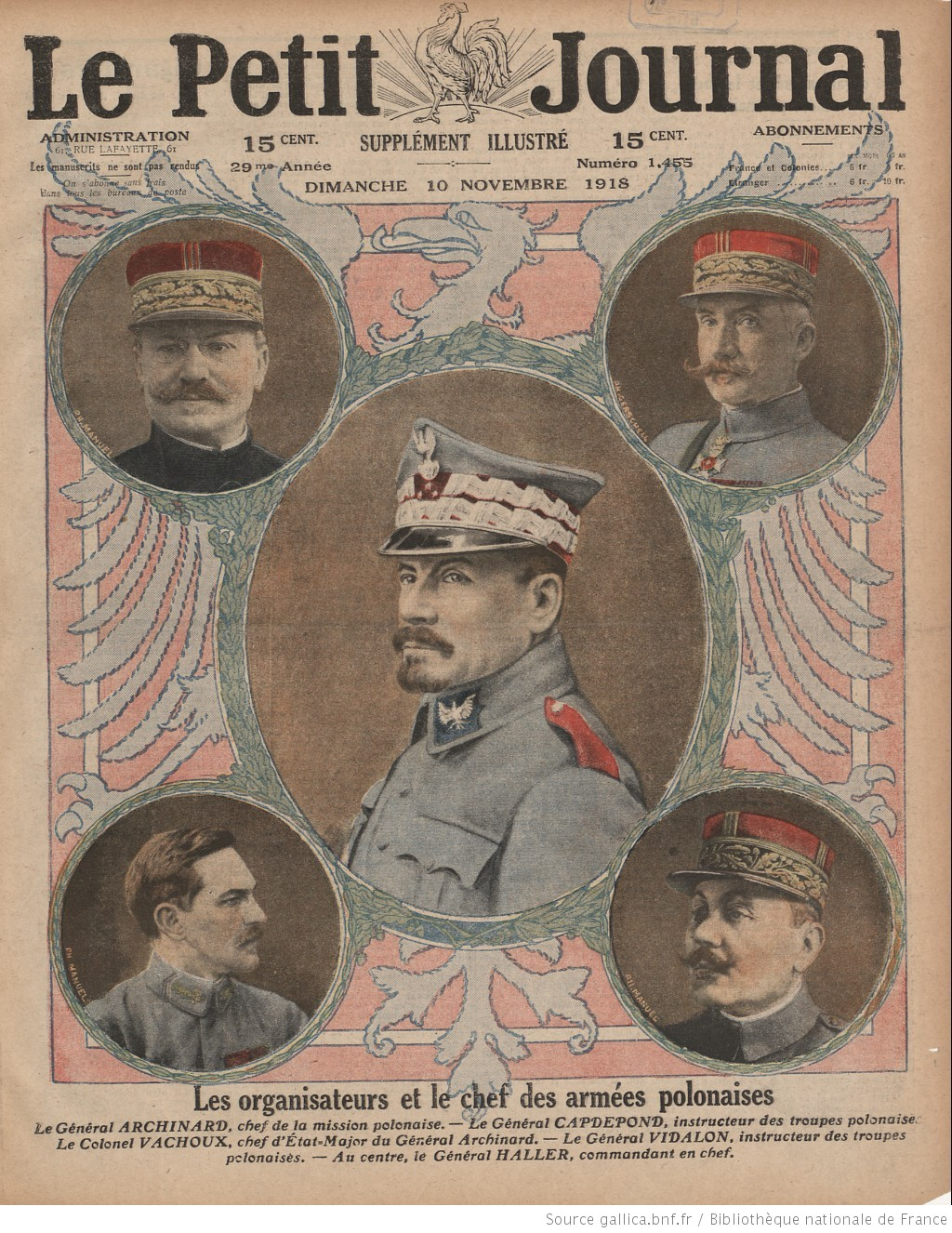 The organizers and the leader of the Polish armies